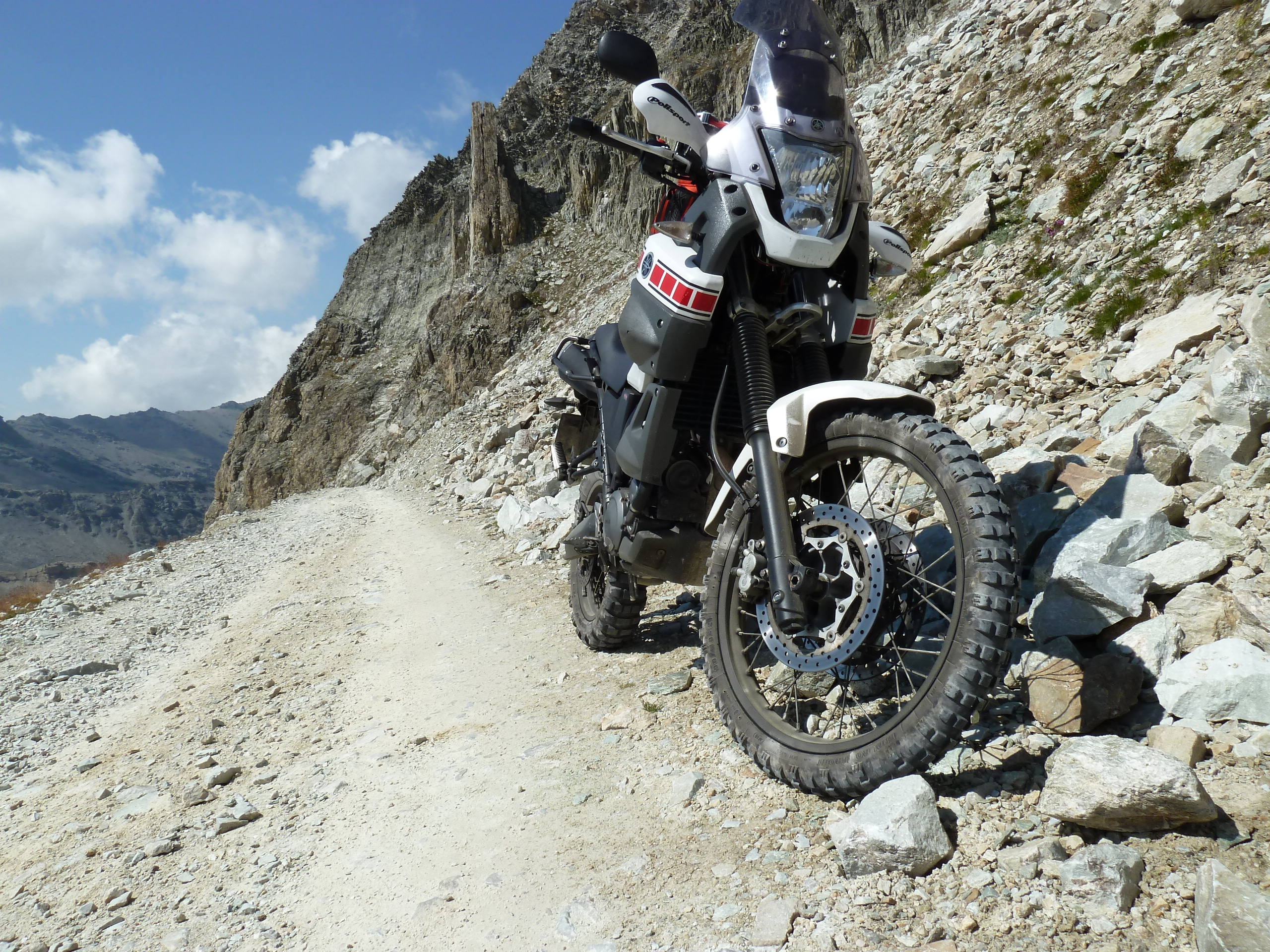 Yamaha XT 660 Z Tenere